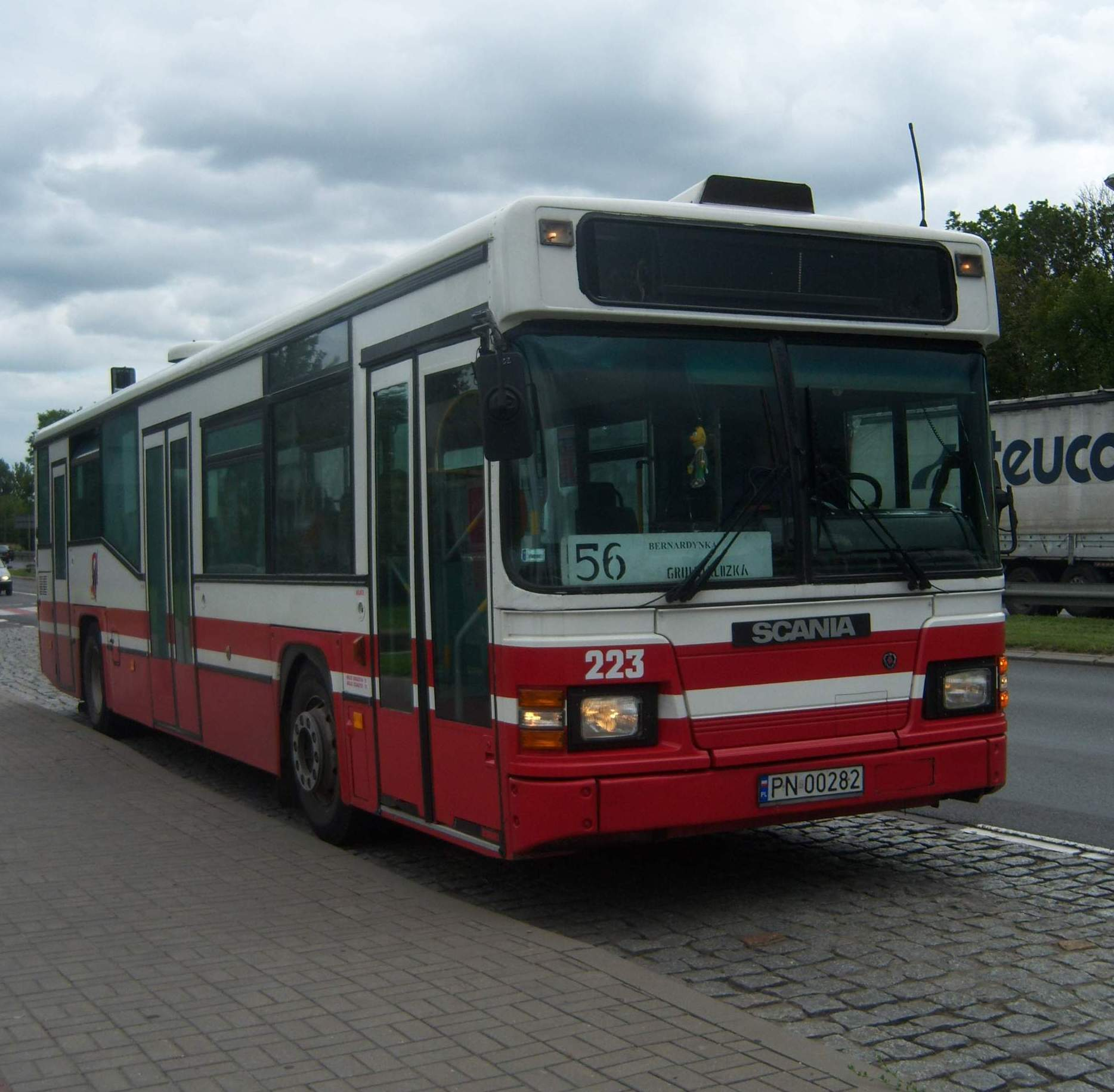 Scania CN113CLL bus (#223) in Konin, Poland. Built 1996, MZK Konin operator.